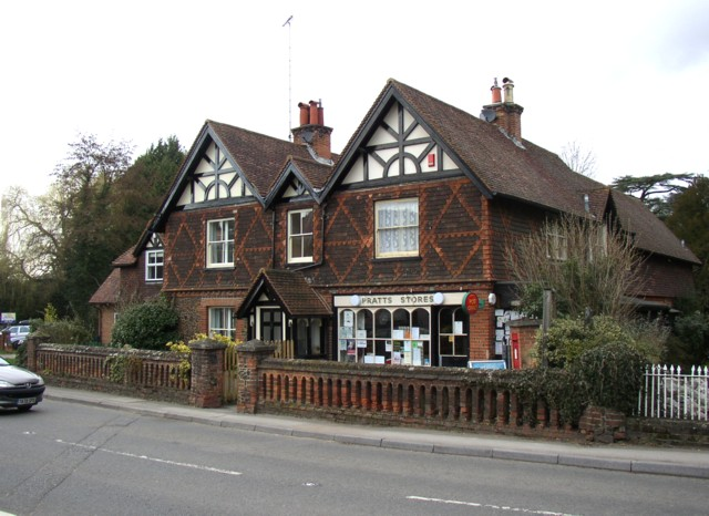 The Post Office, Albury. At TQ048478. The only surviving shop in the village. I like the woodwork in the gables, the patterned tiles on the walls and the garden wall with its narrow arched openings.